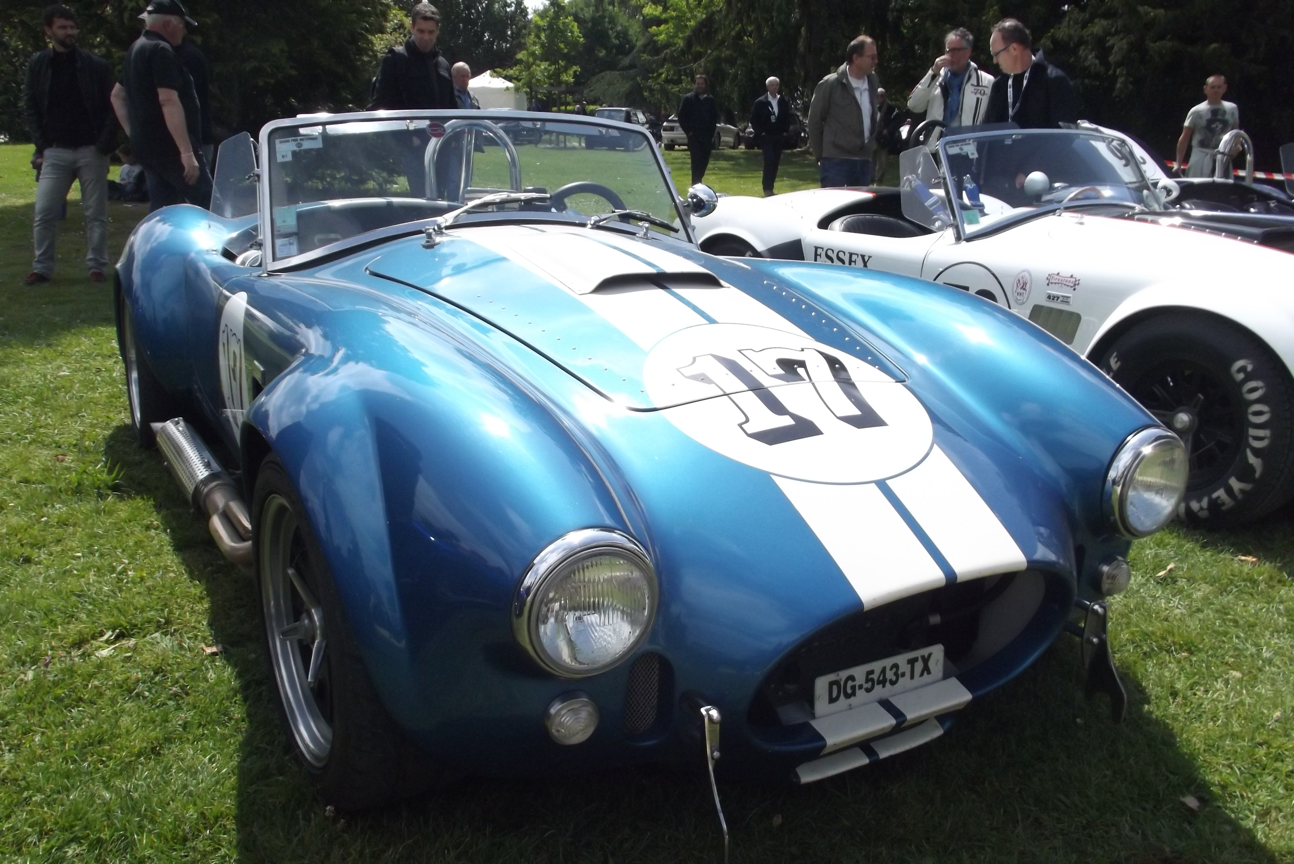 A Shelby Cobra 427.